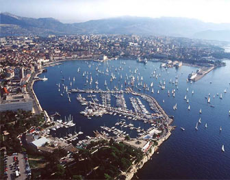 Split